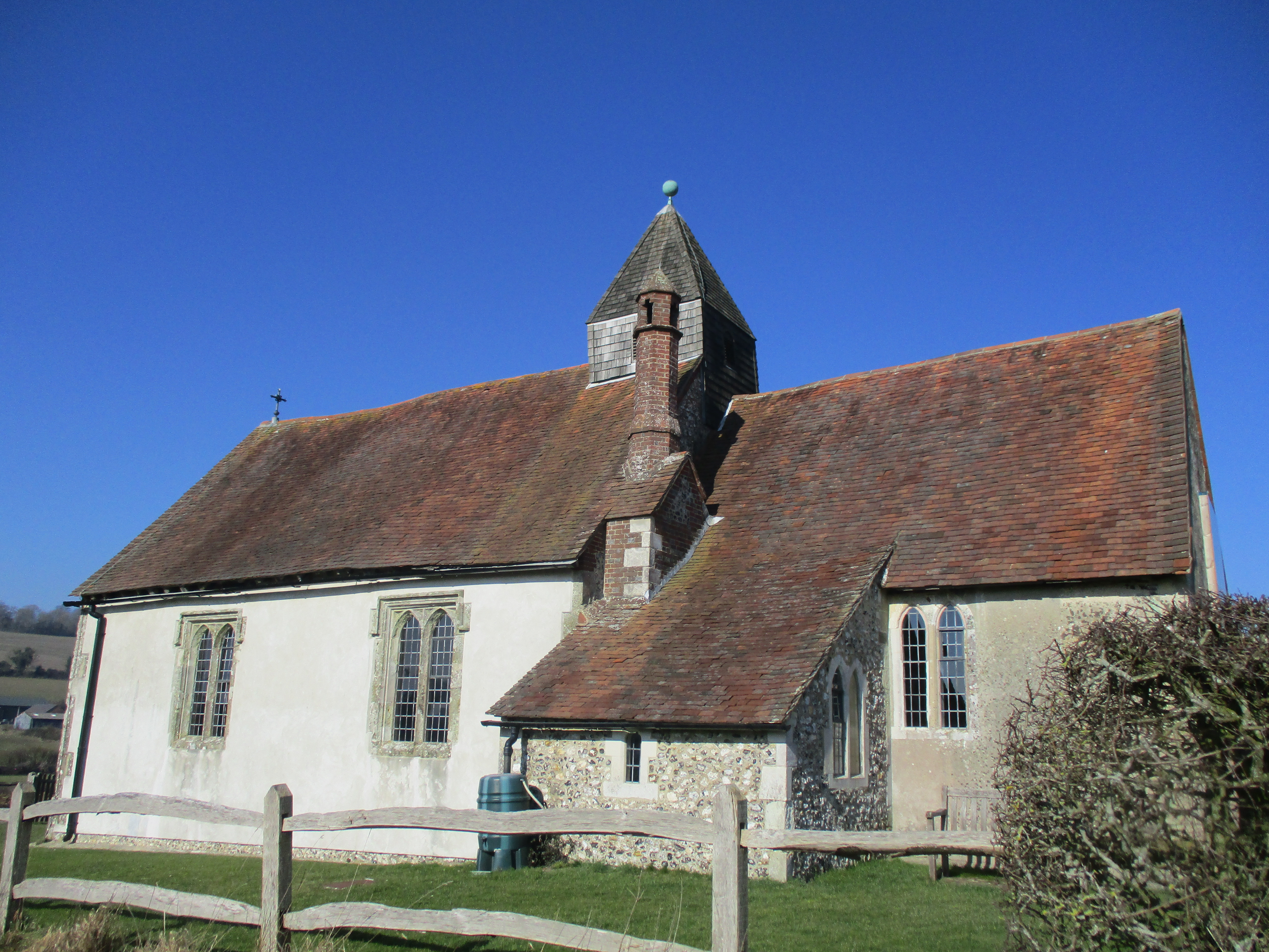 The church of St. Hubert at Idsworth, in Hampshire, England.